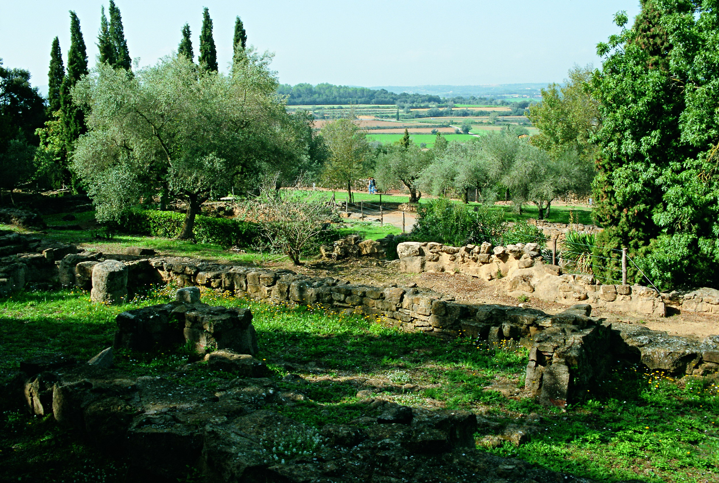 Ullastret Ruins